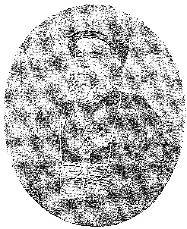 Elias Mellus - Chaldean Bishop of Mardin